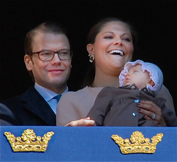 Prince Daniel, Crown Princess Victoria and Princess Estelle at the Royal Palace in Stockholm on the king's 66 birthday on April 30 2012.